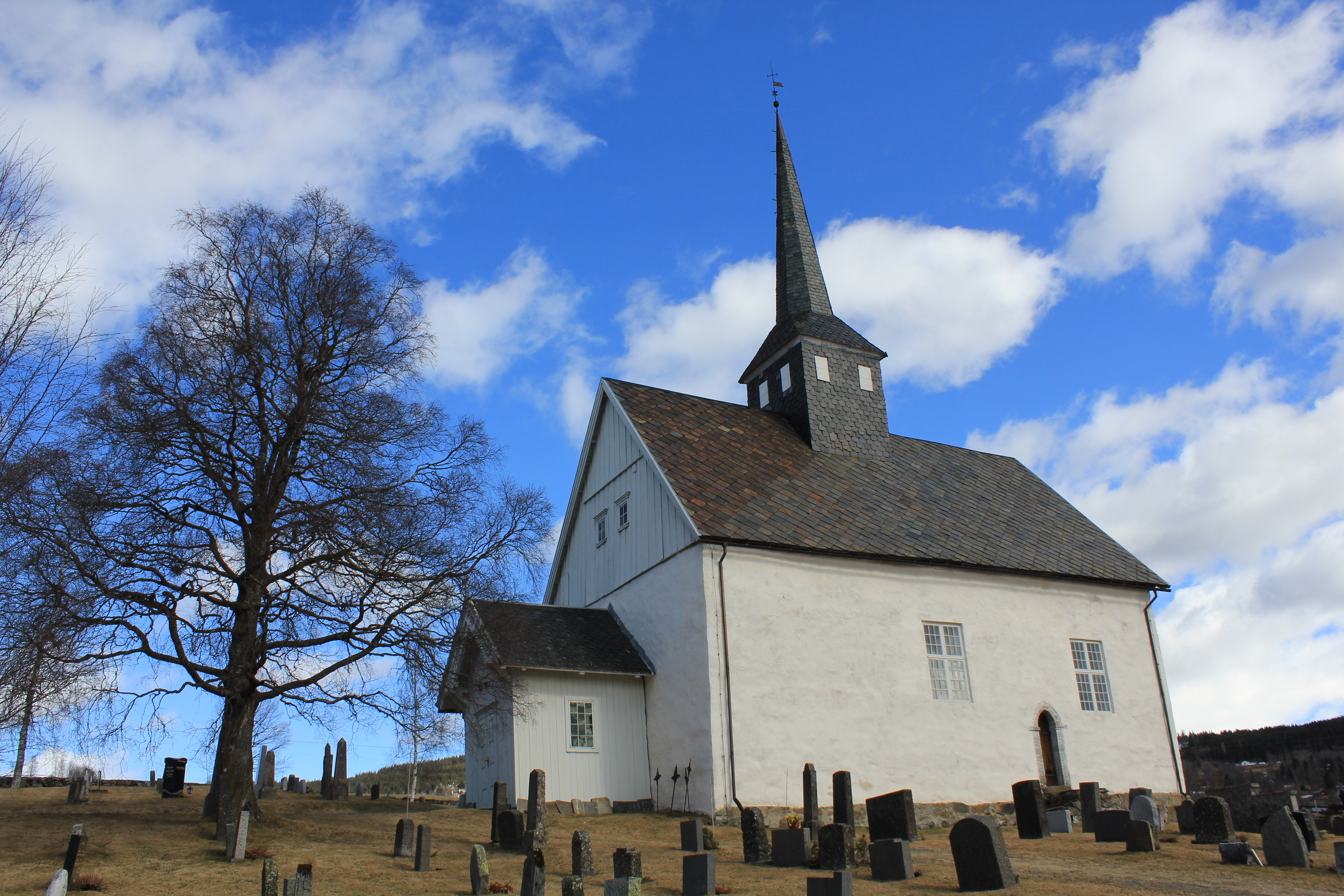 Follebu church, Gausdal, Oppland, Norway.